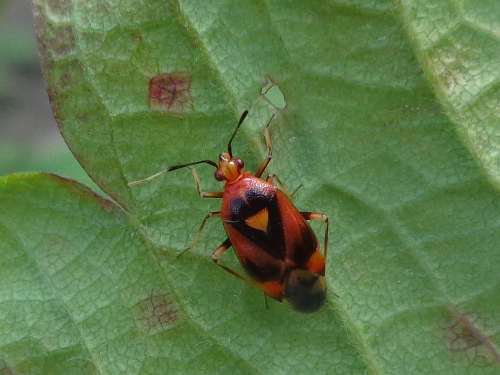 Deraeocoris ruber on Fragaria moschata. Found in Bērzi village naer Bauska city, Latvia.